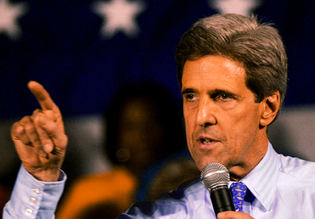 2004 Democratic Presidential Candidate Senator John Kerry (D-MA) at a primary rally in St. Louis, MO at the St. Louis Community College - Forest Park. John Kerry challenged incumbent President George Bush. The campaign produced one of the highest voter turnouts in recent history. With President Bush keeping the White House and Republicans majorities growing in both houses of Congress. Photo by Thomas True